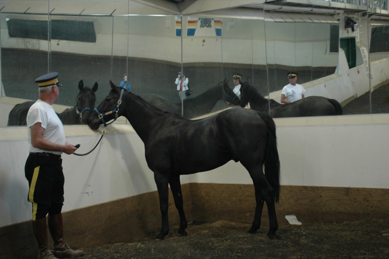 This corner of the riding ring freaks out the new arrivals - where did that herd of horses come from? RCMP Stalbes in Ottawa.